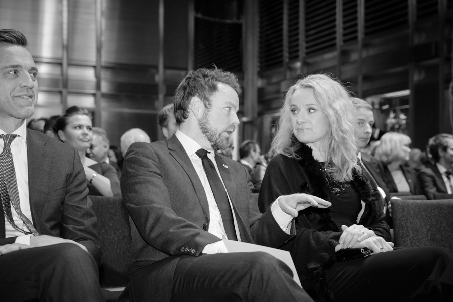 Torbjørn Røe Isaksen and Annike Hauglie at Governor Øystein Olsen's annual address in February 2018